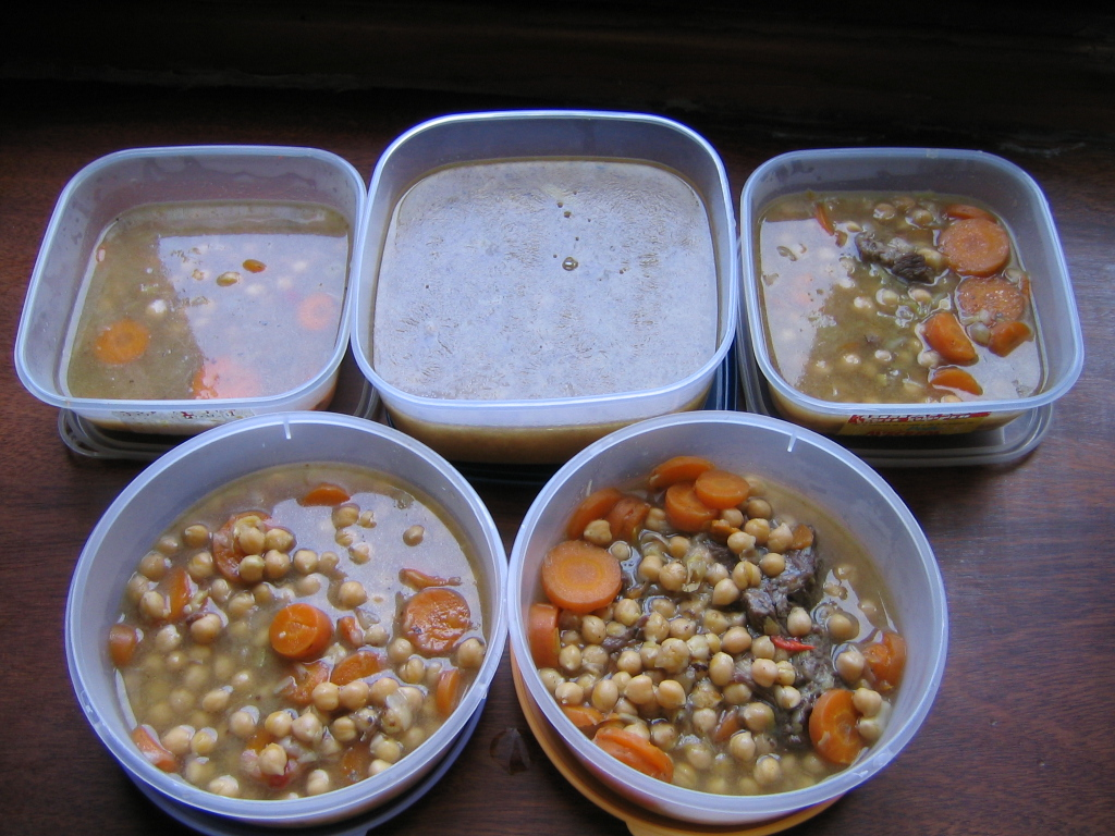 Five Tupperware containers with food in them